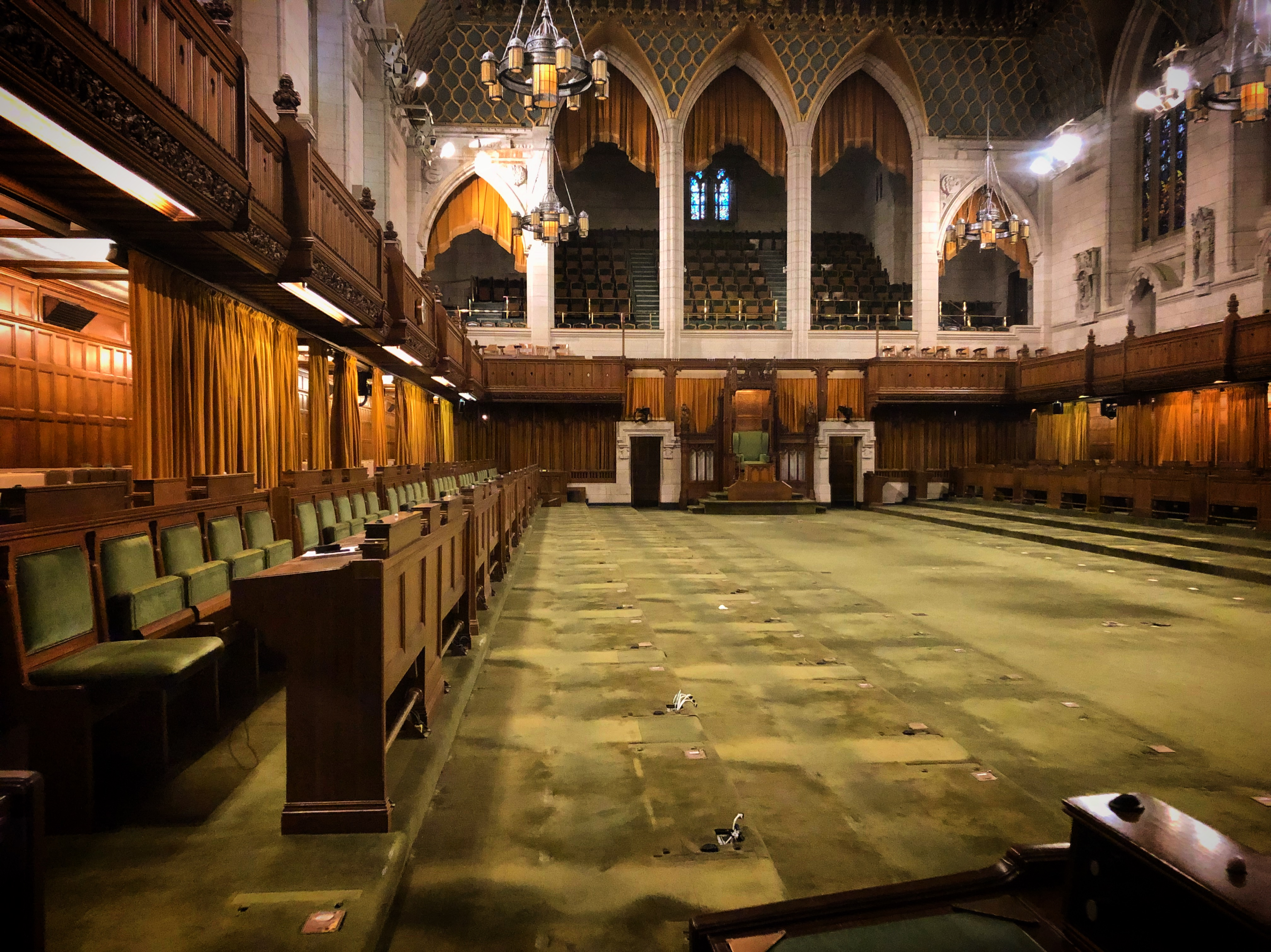 Old desks from the Canadian House of Commons removed in December 2018, to move over to the interim Chamber in West Block. The remaining chairs and desks were added following the 2015 Canadian federal election, in which 30 more MPs were added to the House of Commons.